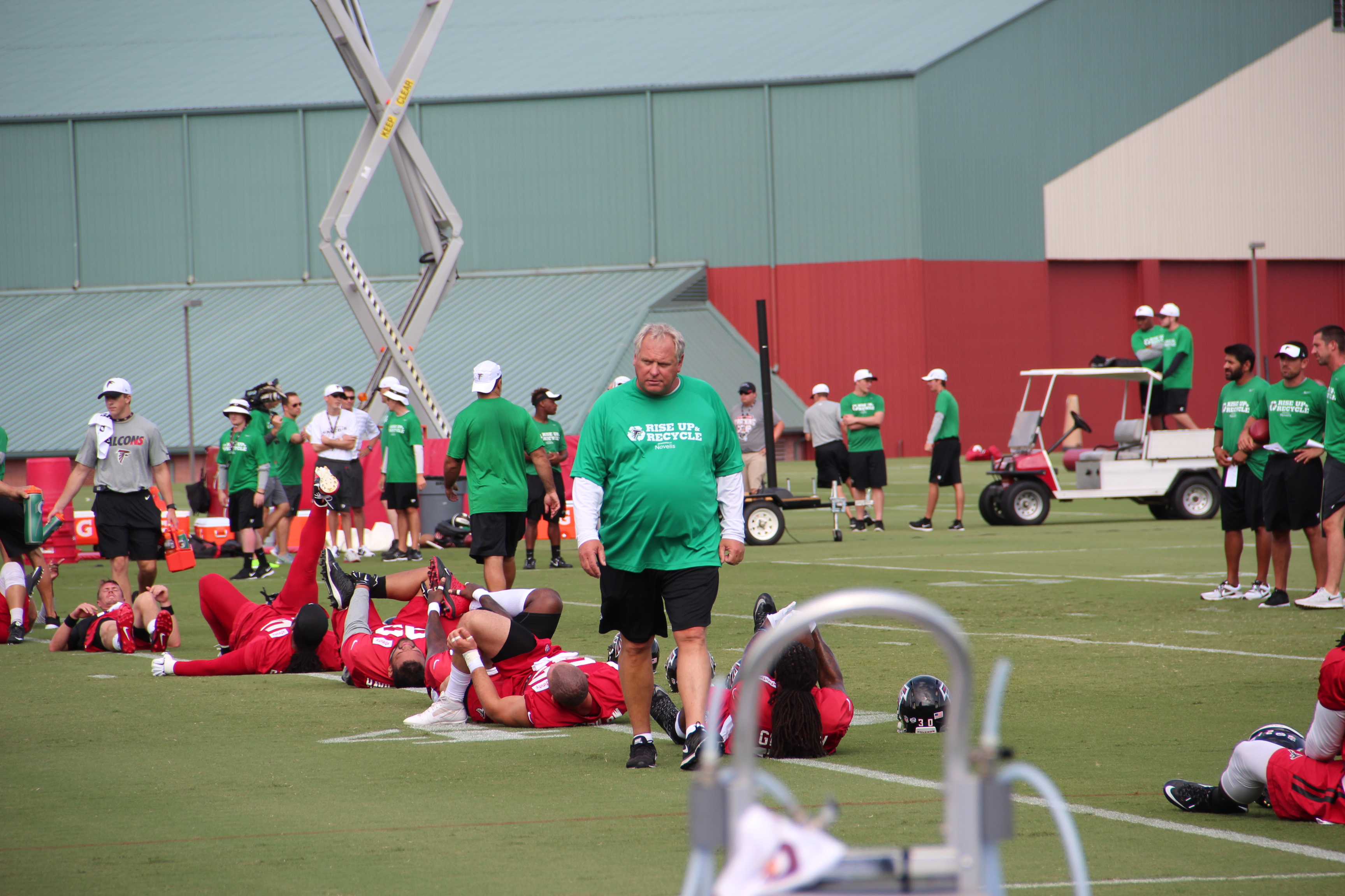 Atlanta Falcons training camp